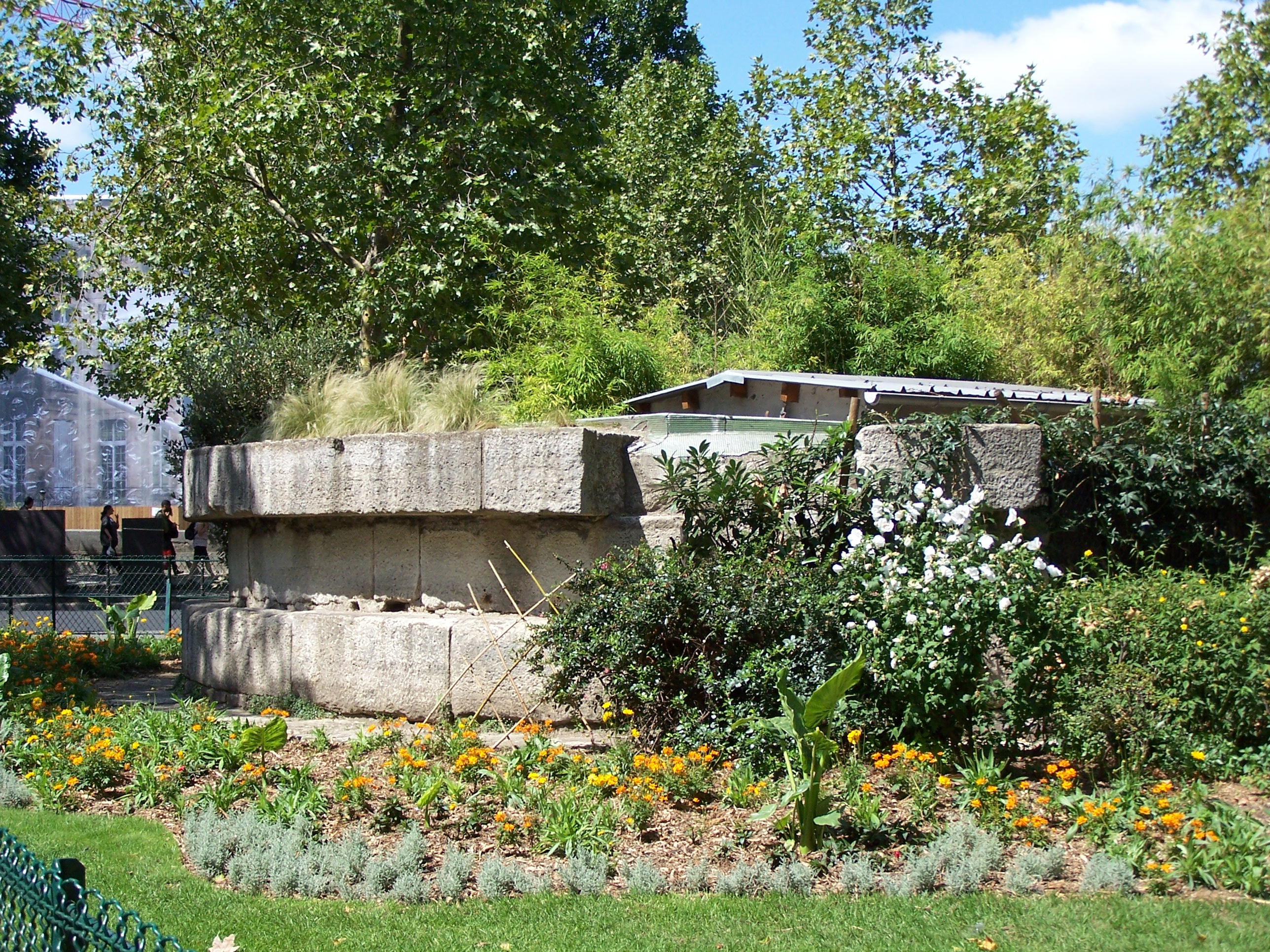 Ruins of one of the 8 towers of the Bastille fortress and jailhouse, found in 1899, and moved in the square Henri-Galli.